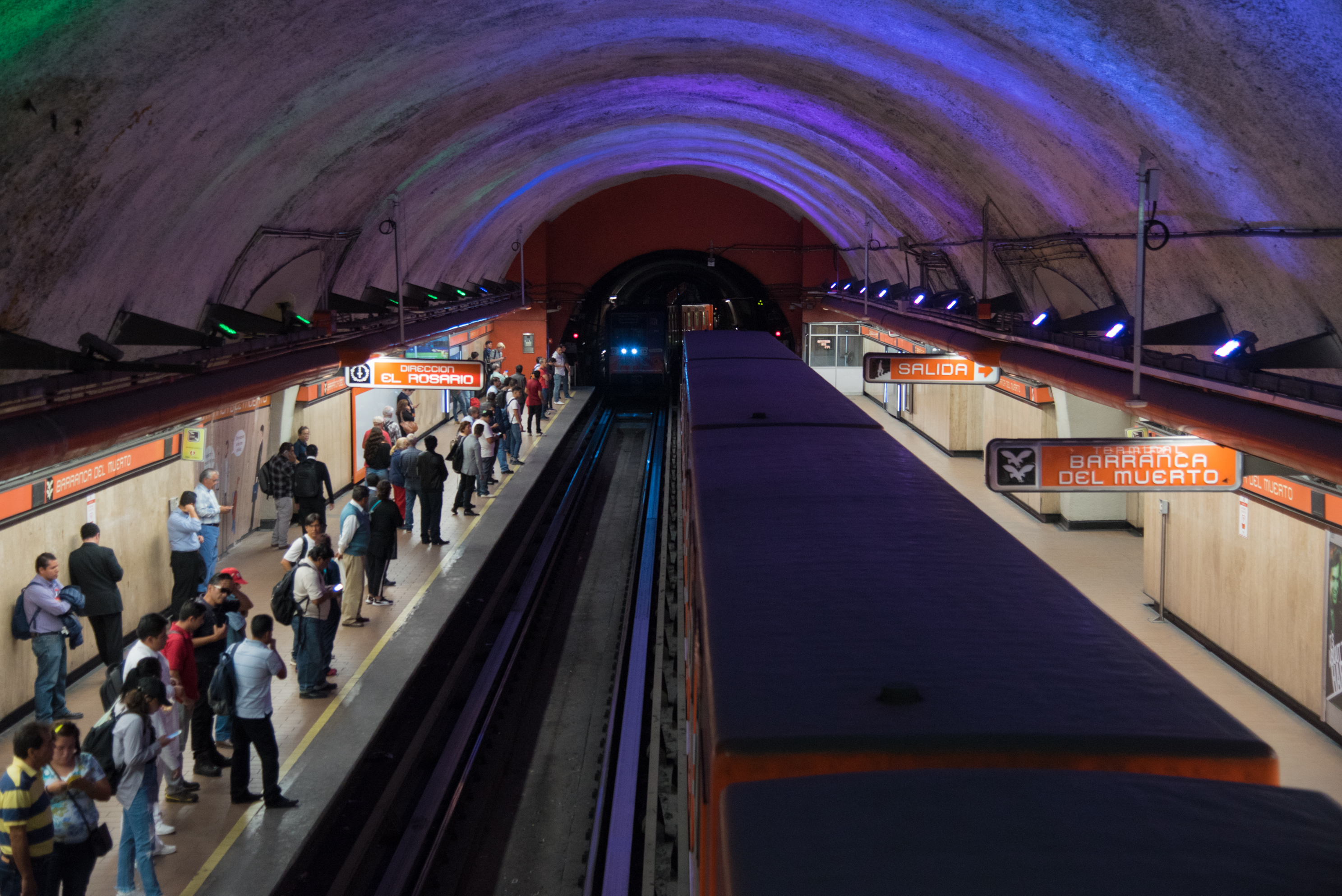 Metro Barranca del Muerto, November 2018